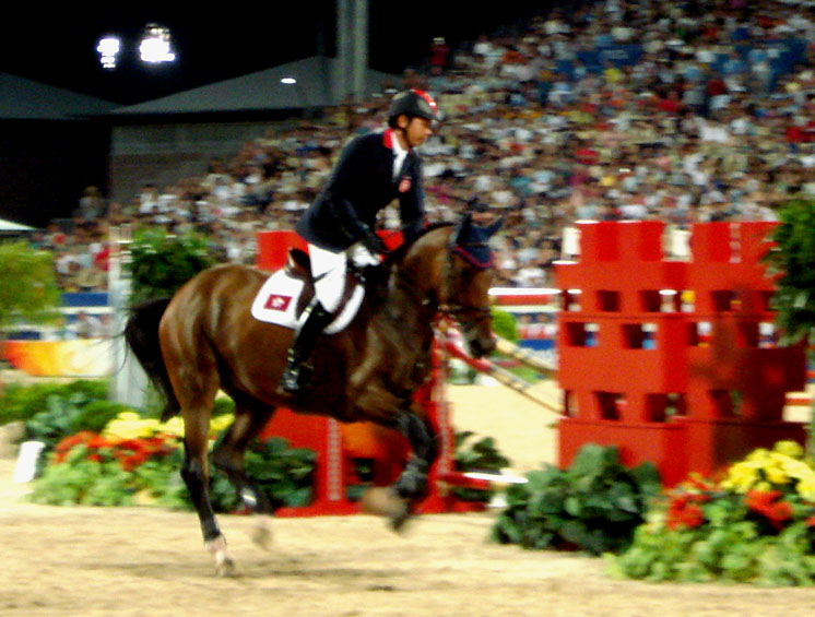 CHENG Man-kit (HKG) in Beijing 2008 Olympic Game - Equestrian Event - Final of Individual Jumping